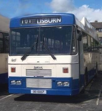 Ulsterbus Leyland Tiger Alexander (Belfast) N-Type 1007 (IXI 1007). This bus followed the example of many other Tigers and was sold for scrap on 06/07/08.